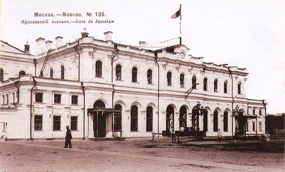 pre-revolutionaty russian postcard of Yaroslavsky Rail Terminal